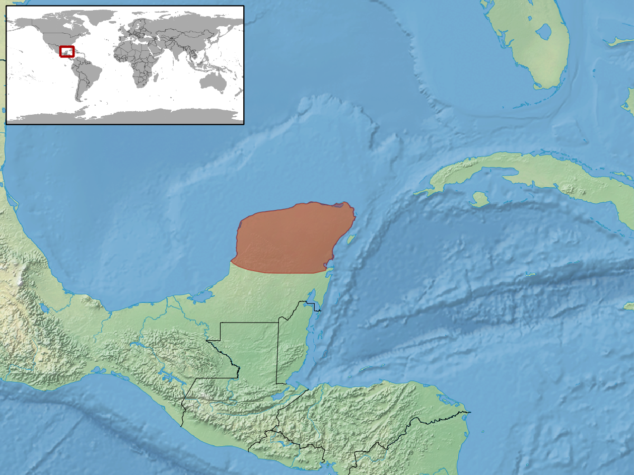 geographic distribution of Porthidium yucatanicum (Native: Mexico)